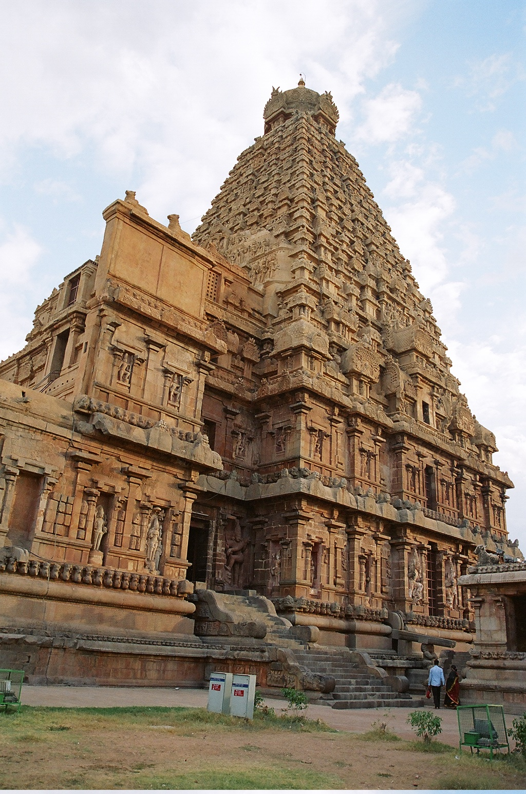 A frontal right side view of the main temple at the Brihadeshwara temple complex in Tanjore.